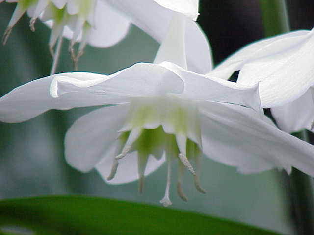 Species: Eucharis grandiflora Family: Amaryllidaceae Image No. 2